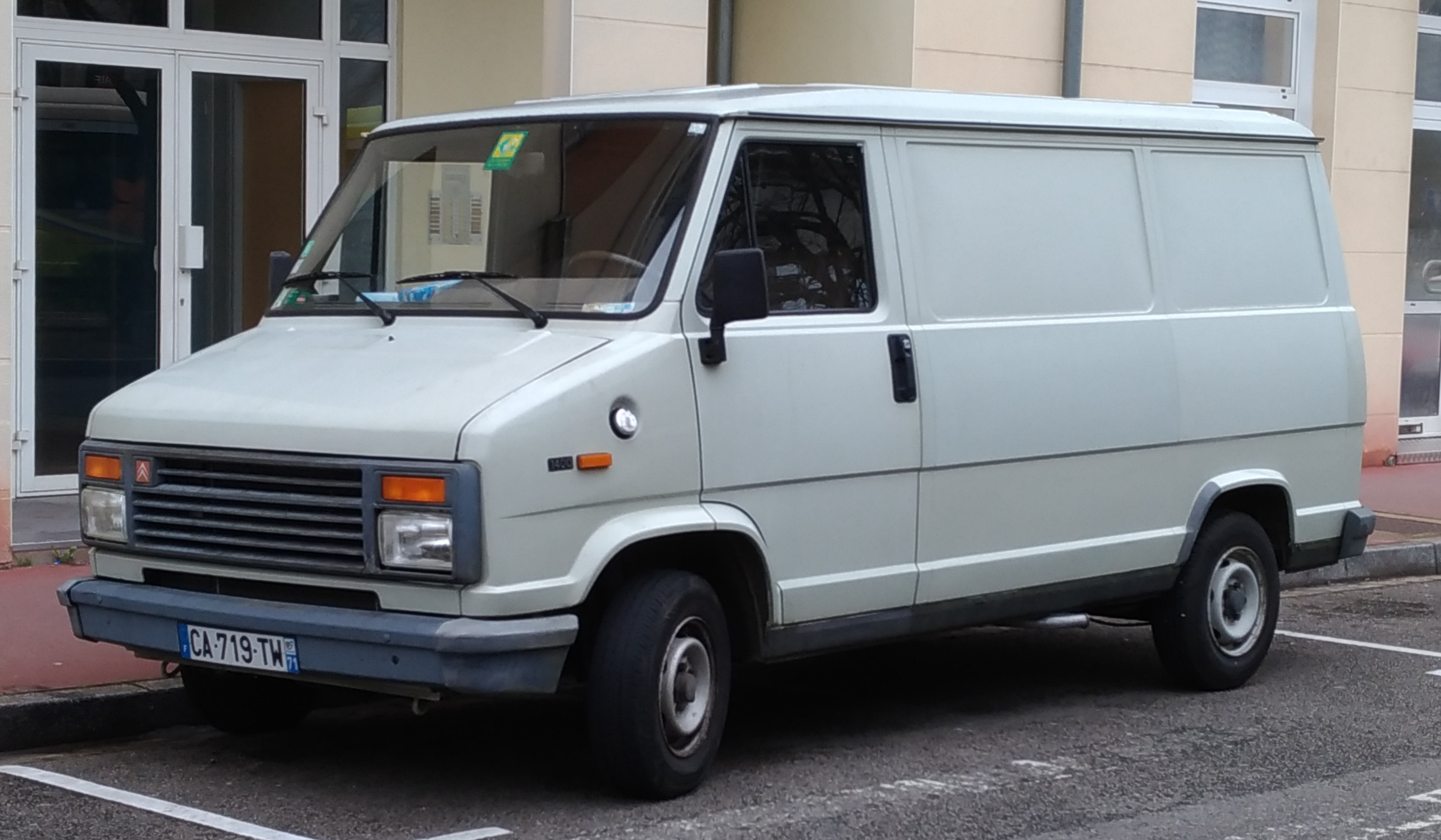 Citroen C25 at Chalon sur Saone